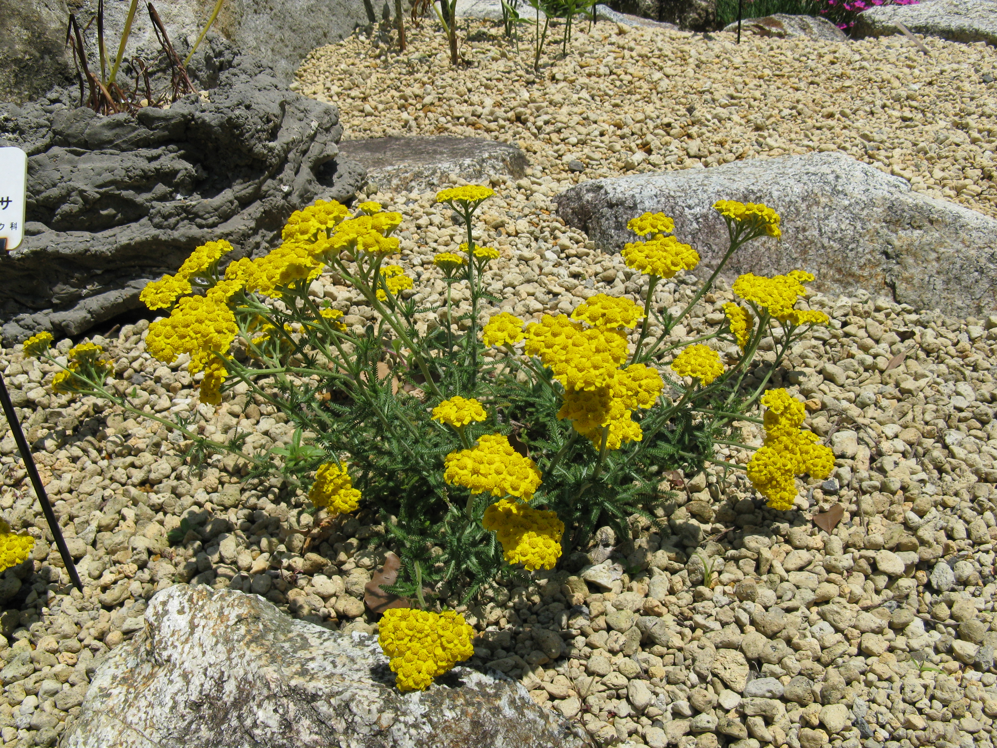 Achillea tomentosa